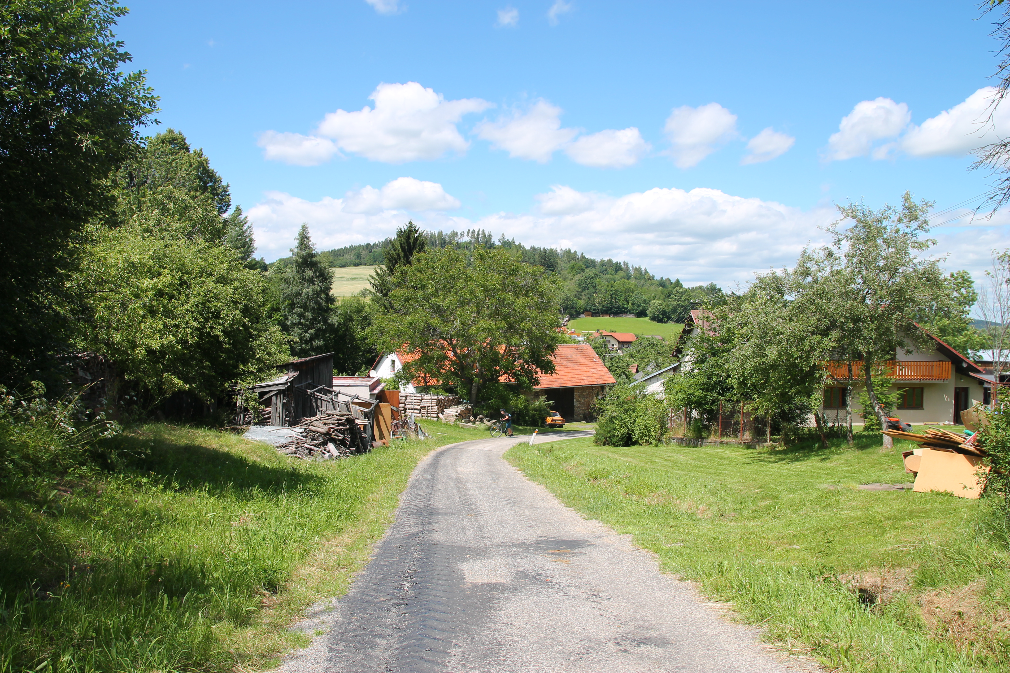 Záhoří, Bošice